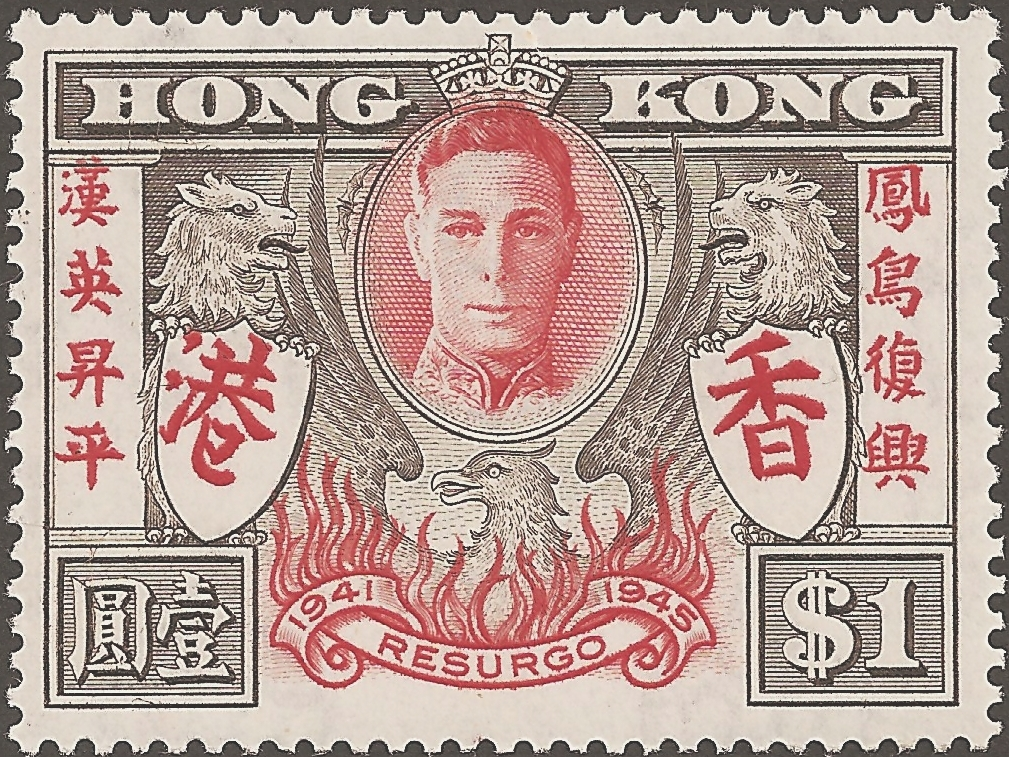 Stamp of the British colony of Hong Kong, of the Victory issue, issued 1946 in a series of 2 with a blue and red 30 cents. The message on left means : "China and Britain perpetually at peace", and the one on right : "The Phoenix revives in prosperity" (by Miss E. K. Baker of the Colonial Office, in a letter to Sir Alan Lascelles, Private Secretary to King George VI, quoted in Nicholas Courtney, The Queen's Stamps, 2003, ISBN 0413772284, page 263.